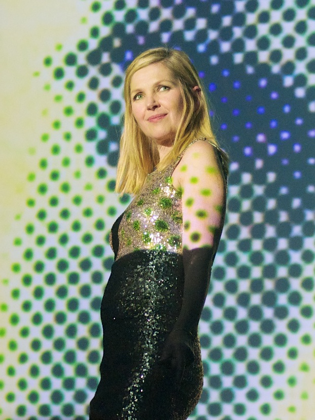 Sarah Cracknell performing with Saint Etienne at Concorde 2 in Brighton, England